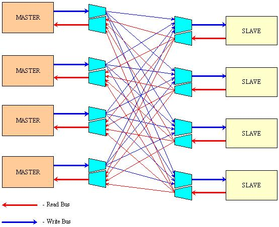 Split bus interconnect simplified block diagram